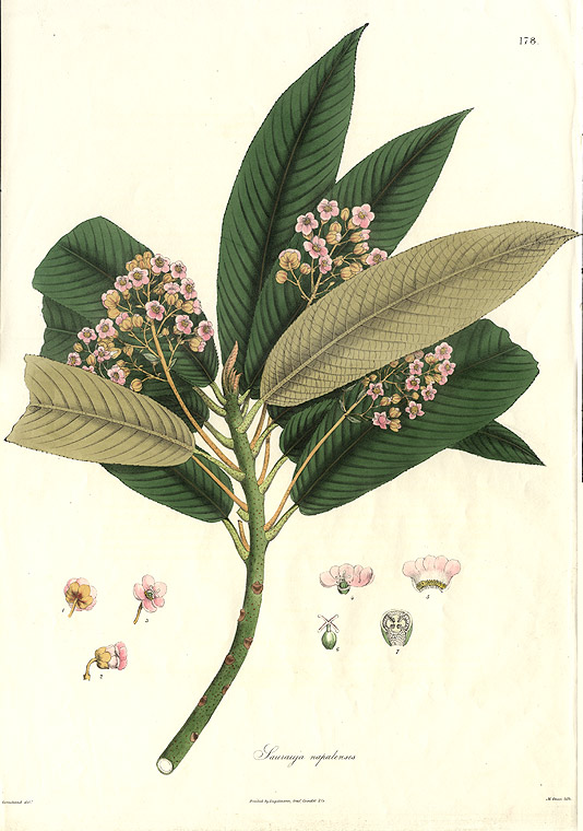 Saurauja nepalensis = Saurauia nepalensis (Actinidiaceae), plate from "Plantae Asiaticae Rariores"